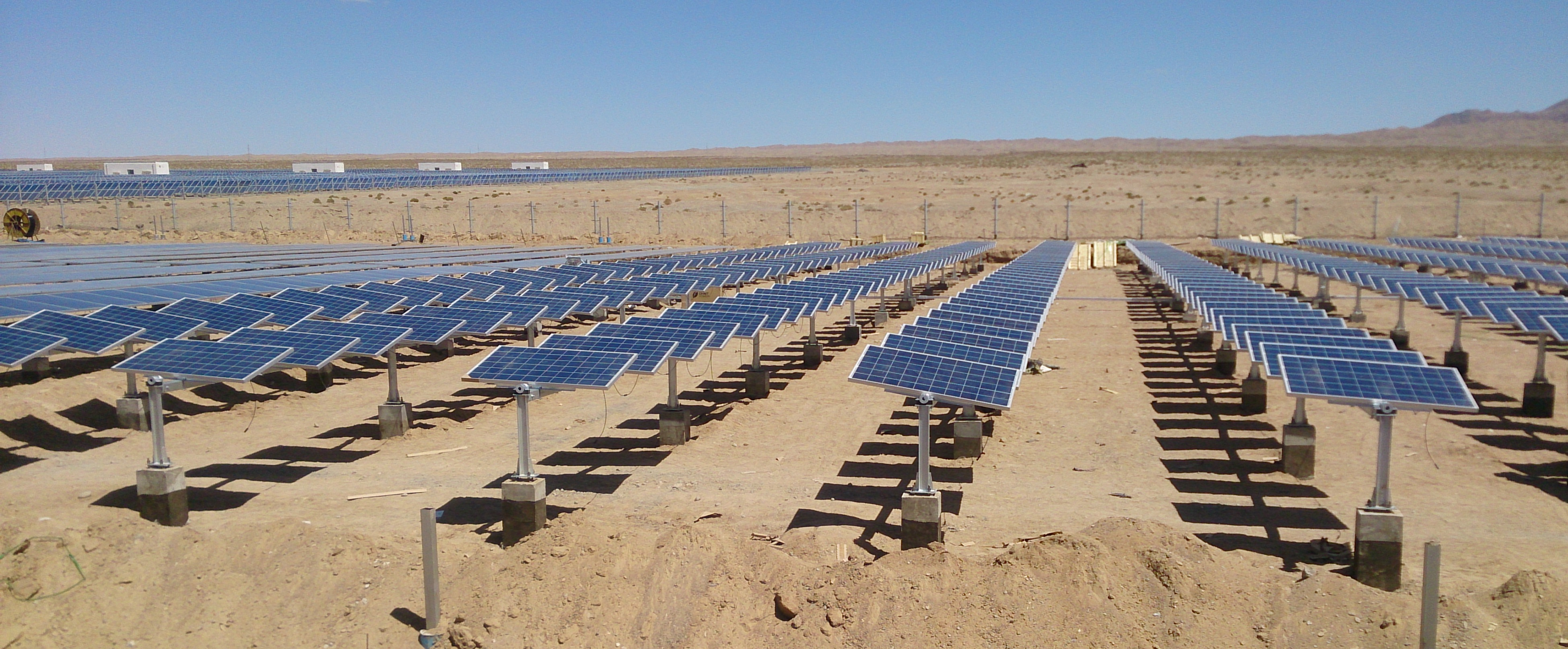 Photo of Suntrix tracker project in Xitieshan, China. Commissioned in July 2014.